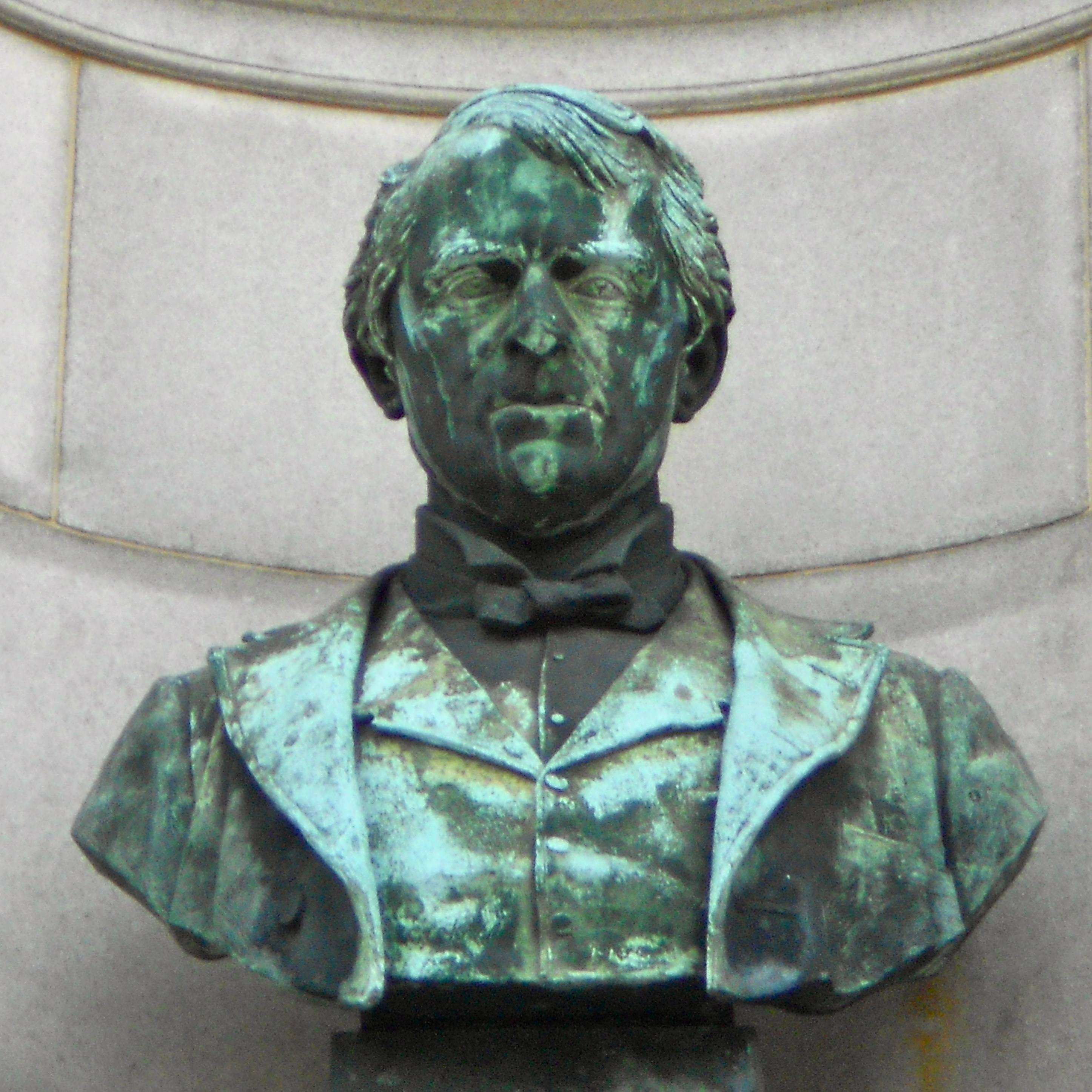 Smith Memorial Arch: Sculpture of Pennsyvania Governor Andrew Gregg Curtin by Moses Jacob Ezekiel, 1898. Bronze sculpture with granite base. SIRIS reference IAS PA000532